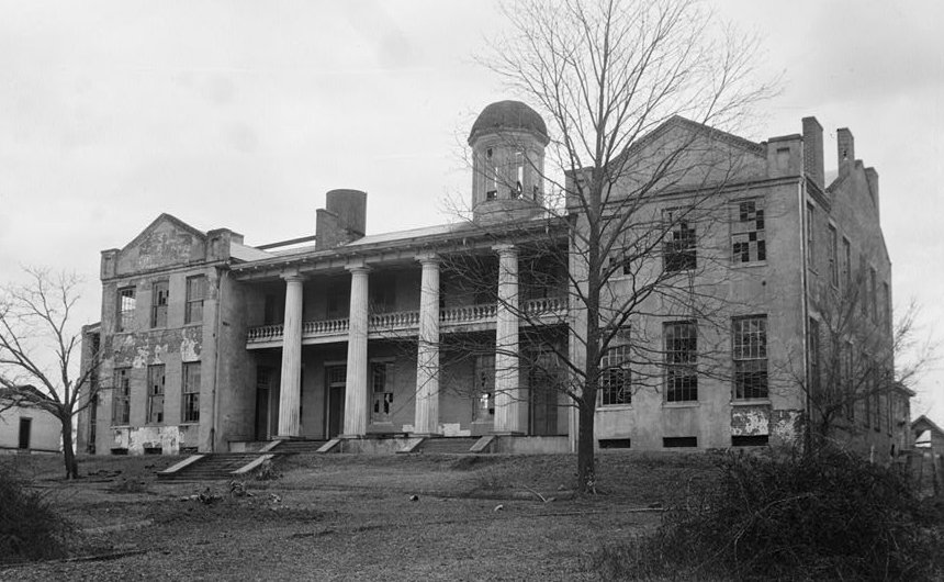 The main building of the Centenary Institute in Summerfield. Cropped from image HABS ALA,24-SUM,2A- from the Historic American Buildings Survey, W. N. Manning, photographer, March 23, 1934. The Centenary Institute was a school in Summerfield operated by the Methodist Episcopal Church, South; from 1829 until the 1880s